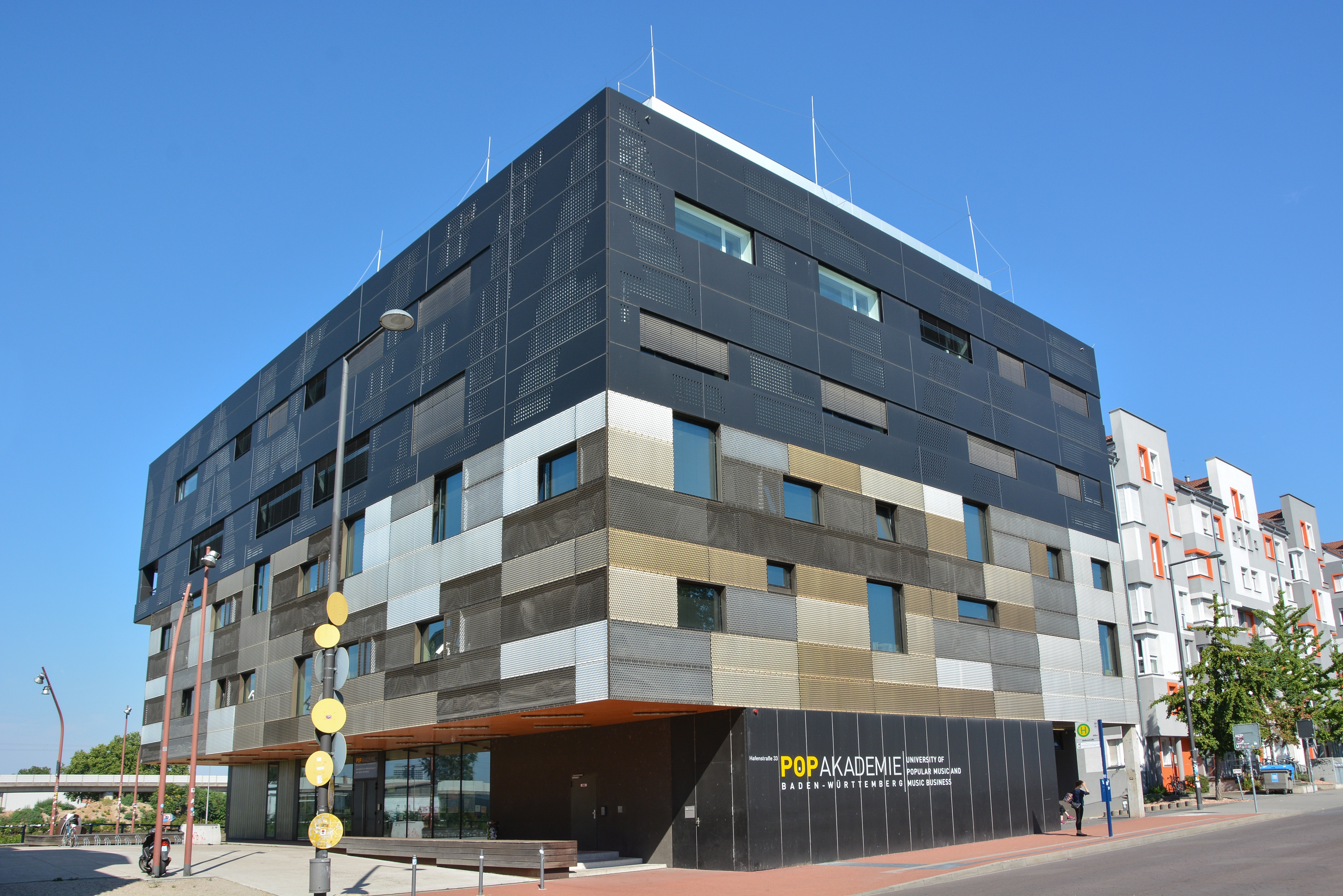 University of Popular Music and Music Business, Mannheim, Germany